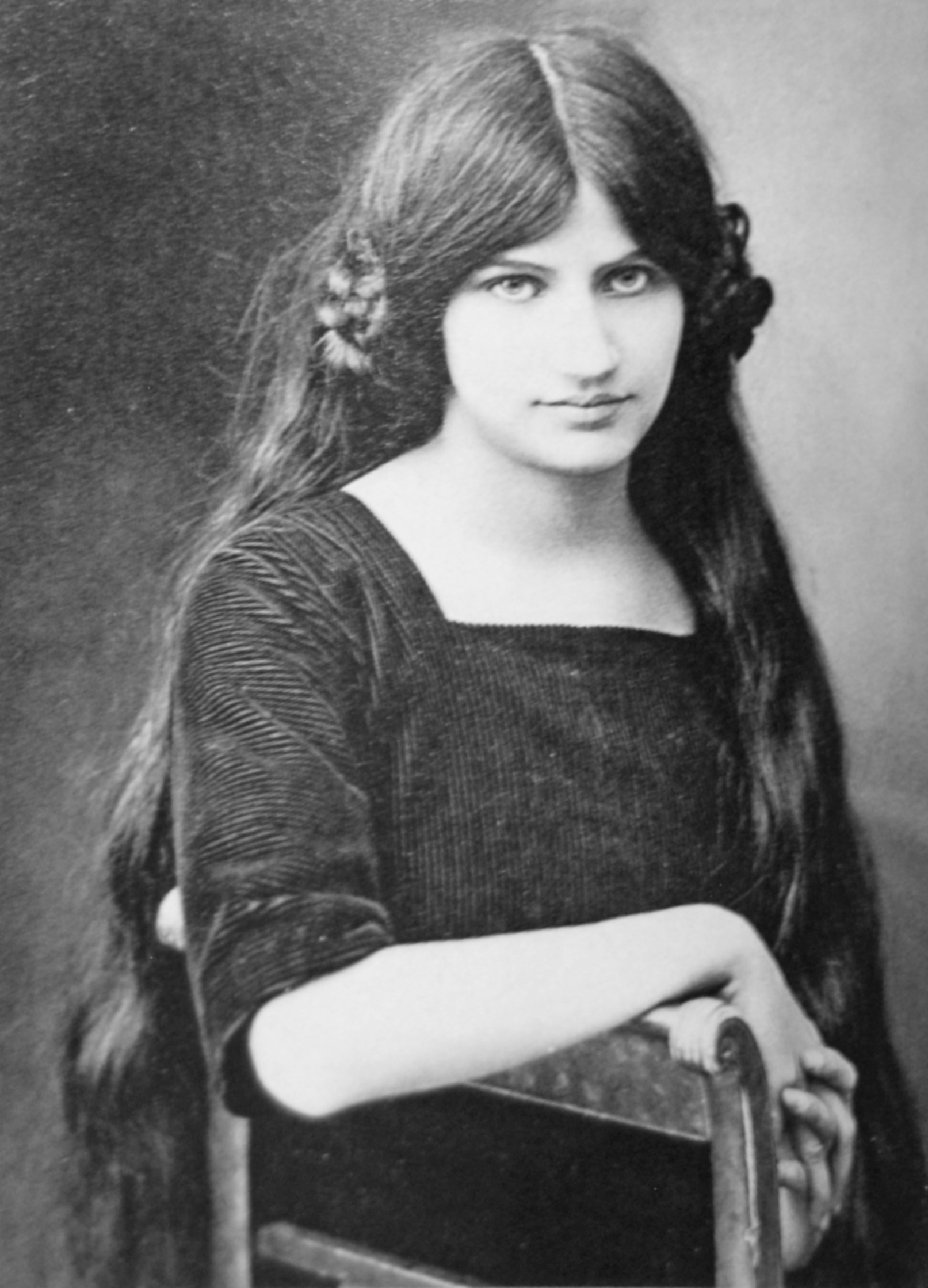 Jeanne Hébuterne at 19 years.